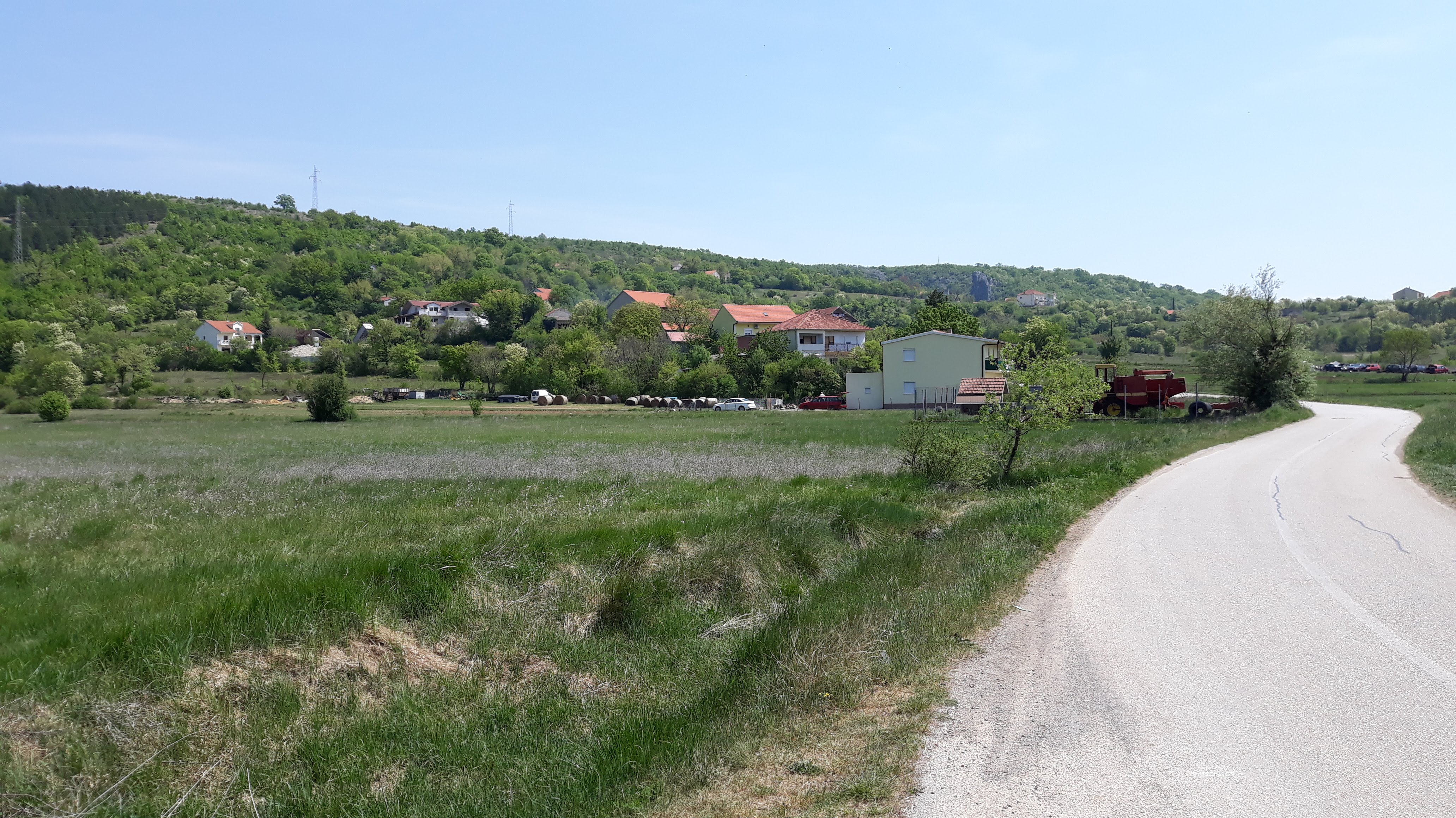 Rumin village, municipaliy of Hrvace, Croatia